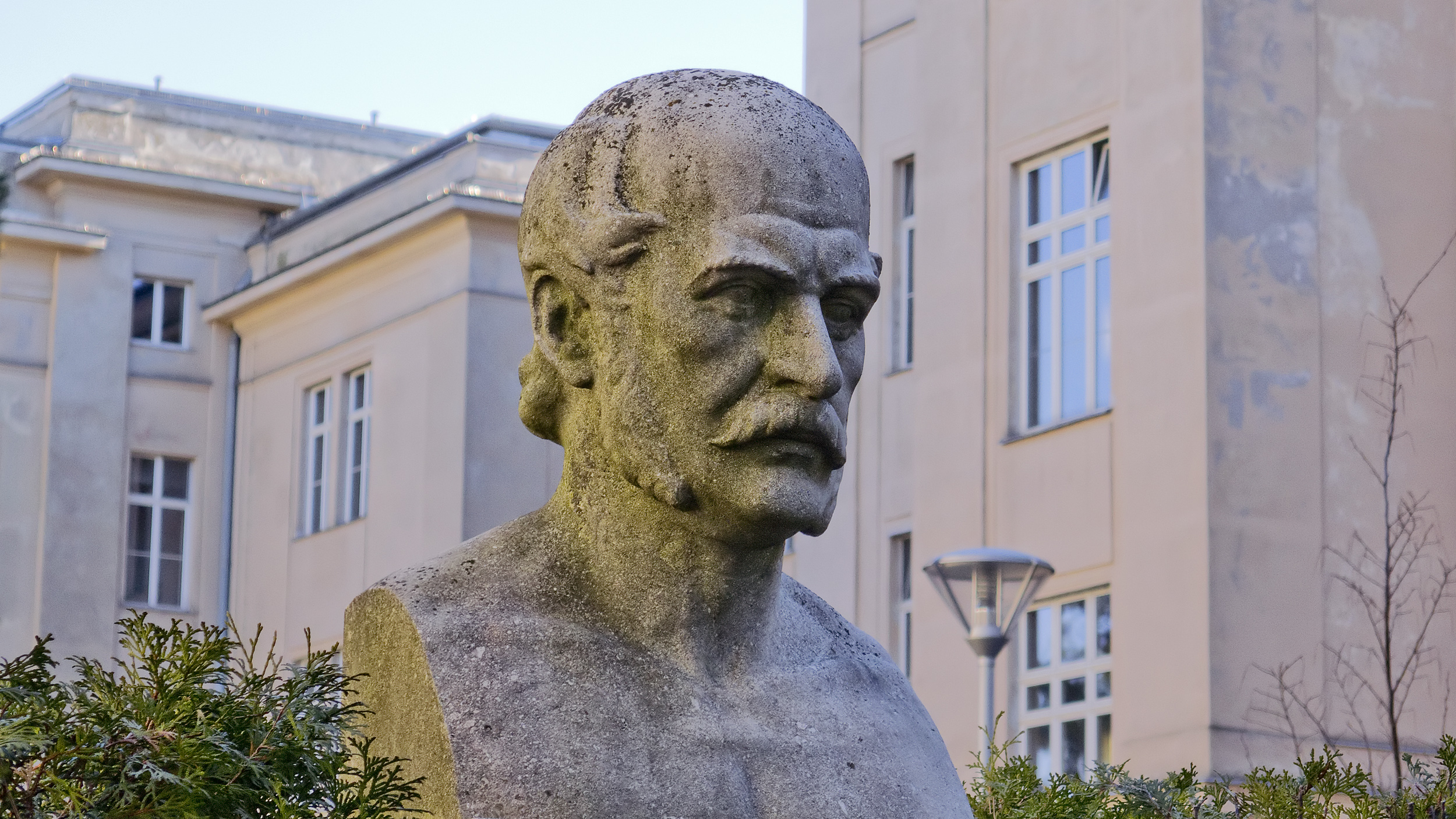 Hospital Semmelweis-Frauenklinik in Vienna Währing